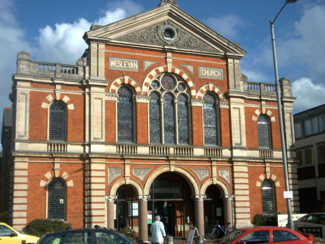 Aylesbury Methodist Church, Aylesbury, Buckinghamshire, England, built in 1893 as a Wesleyan Methodist church